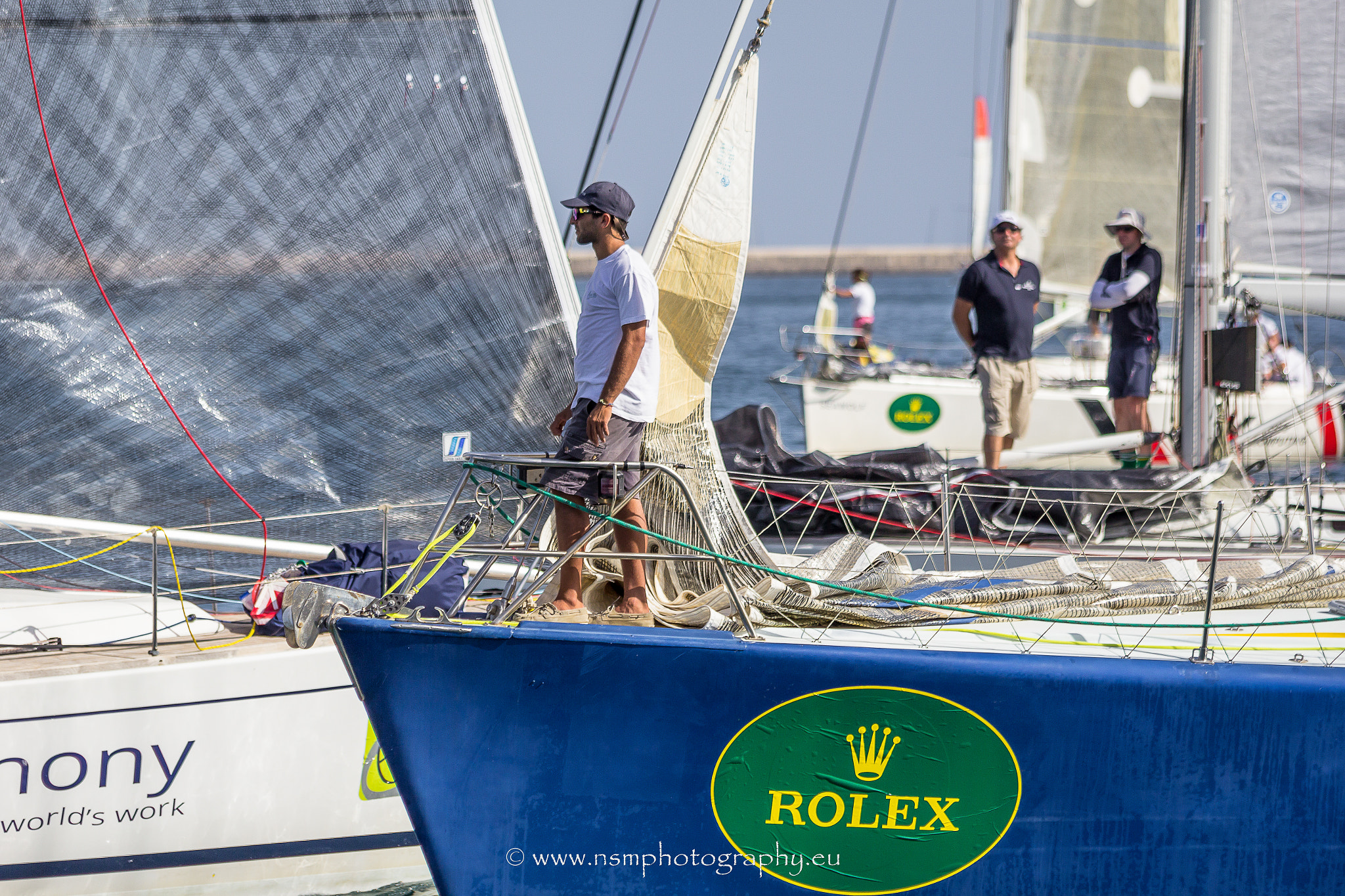 500px provided description: Crowded Grand Habour at the start of the Middle Sea Race, in Valletta Malta. Crew member on the look out [#sky ,#sea ,#people ,#water ,#boat ,#man ,#seascape ,#race ,#outdoors ,#rolex ,#crew ,#middle sea race ,#Valletta ,#Malta ,#Grand Habour]